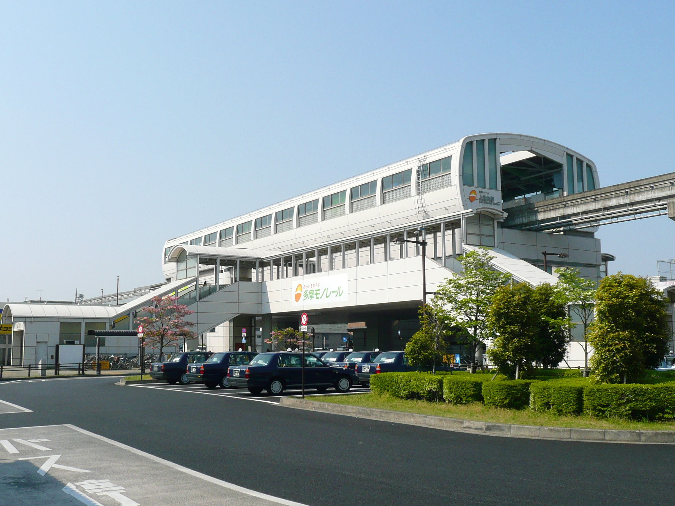 Kamikitadai Station